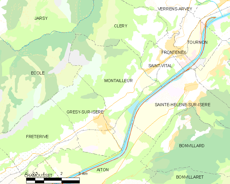 Map of French municipality